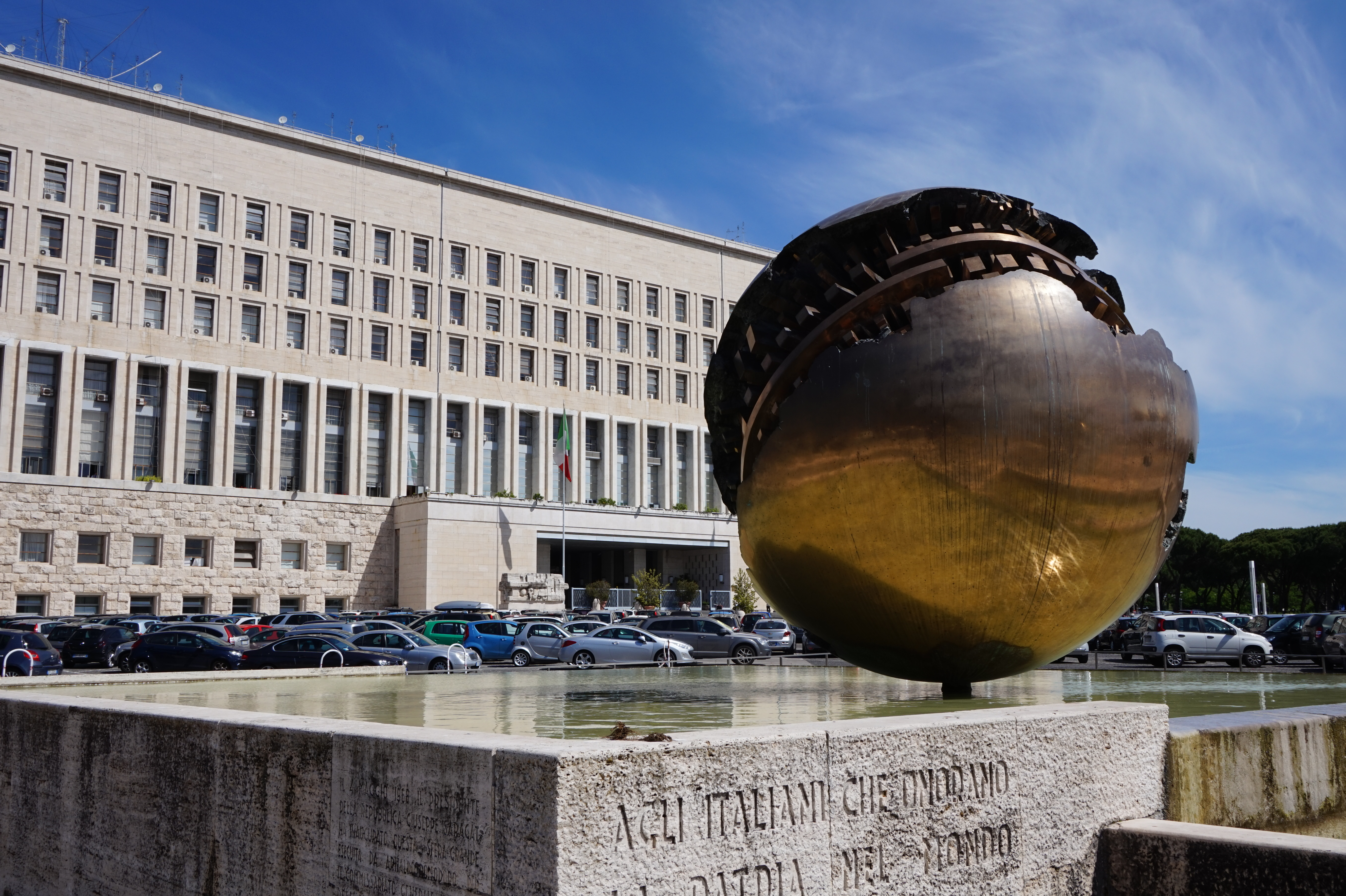 Headquarters of the Ministry of External - Rome - Italy